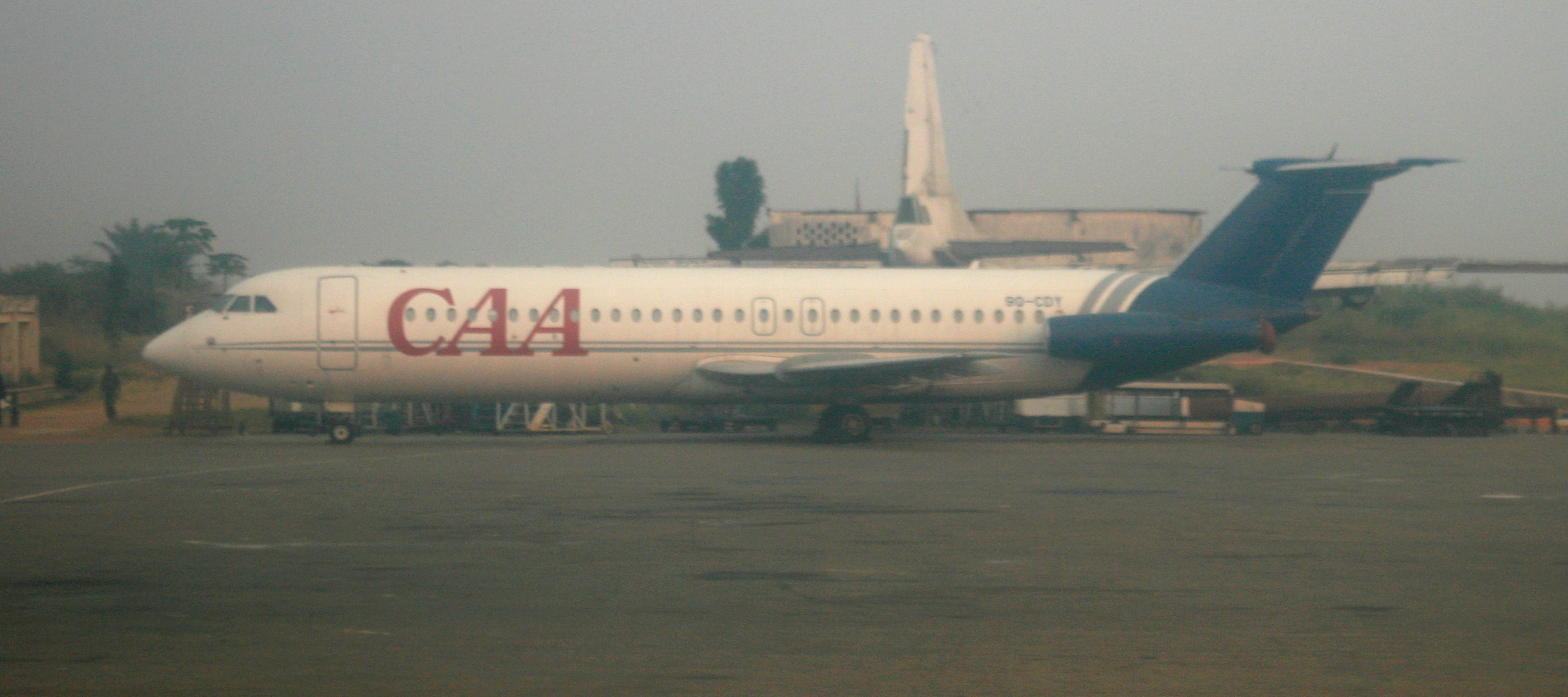 Compagnie Africaine d'Aviation airplane at Mbuji-Mayi Airport, Democratic Republic of Congo